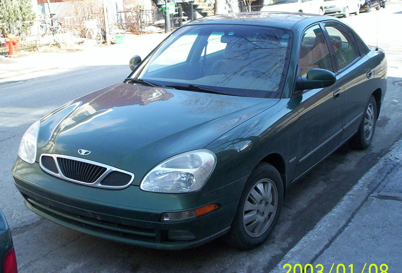 1999-2002 Daewoo Nubira photographed in Montreal, Quebec, Canada.